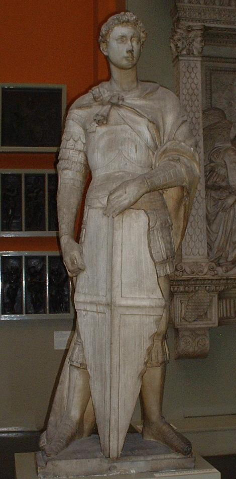 In the Cast Courts of the Victoria and Albert Museum, London. Photographed January 2006. Legend reads: St. George, after marble original by Donatello in the Museo Nazionale (Bargello), Florence Florentine; 1415-17 Purchased from M. Desachy, Paris 1864-36 Executed for the niche of the Arte Dei Corazzai, the Armourers' guild, on the church of Or San Michele, Florence. The original figure was transferred from Or San Michele to the Museo Nazionalae in 1892 and replaced in the niche by a bronze copy.